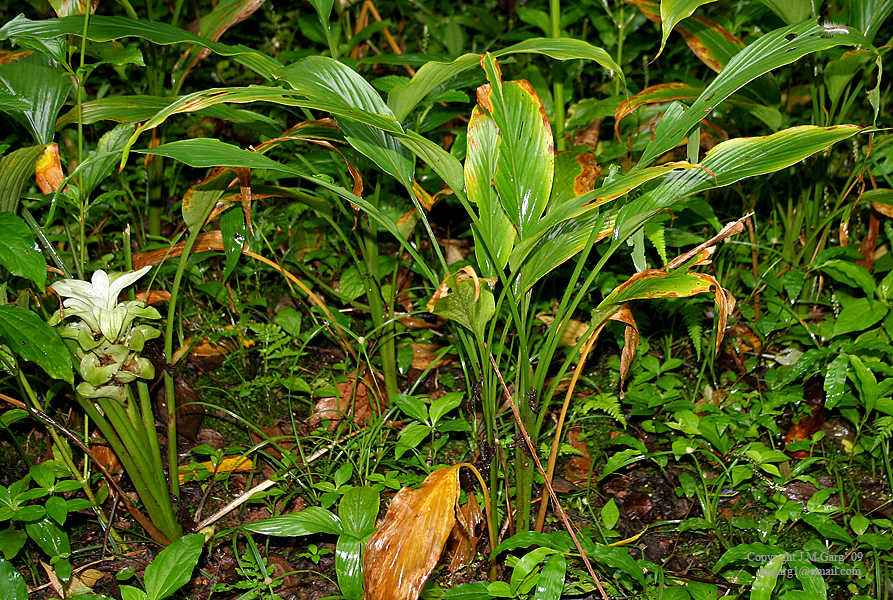 Curcuma longa- COMMON TURMERIC, Turmeric • Assamese: হালধি, Halodhi • Bengali: হলুদ Halud • Gujarati: હળદર Haldar • Hindi: हल्दी Haldi • Kannada: Arishina, Arisina • Malayalam: മഞ്ഞള്‍, Manjal • Marathi: हळद Halad • Nepali: हल्दी Haldi • Oriya: Haladi • Sanskrit: Haridra, Marmarii • Tamil: மஞ்சள் Manjal • Telugu: హరిద్ర, Haridra • Urdu: Haldi, ہلدی - in Goa, India.